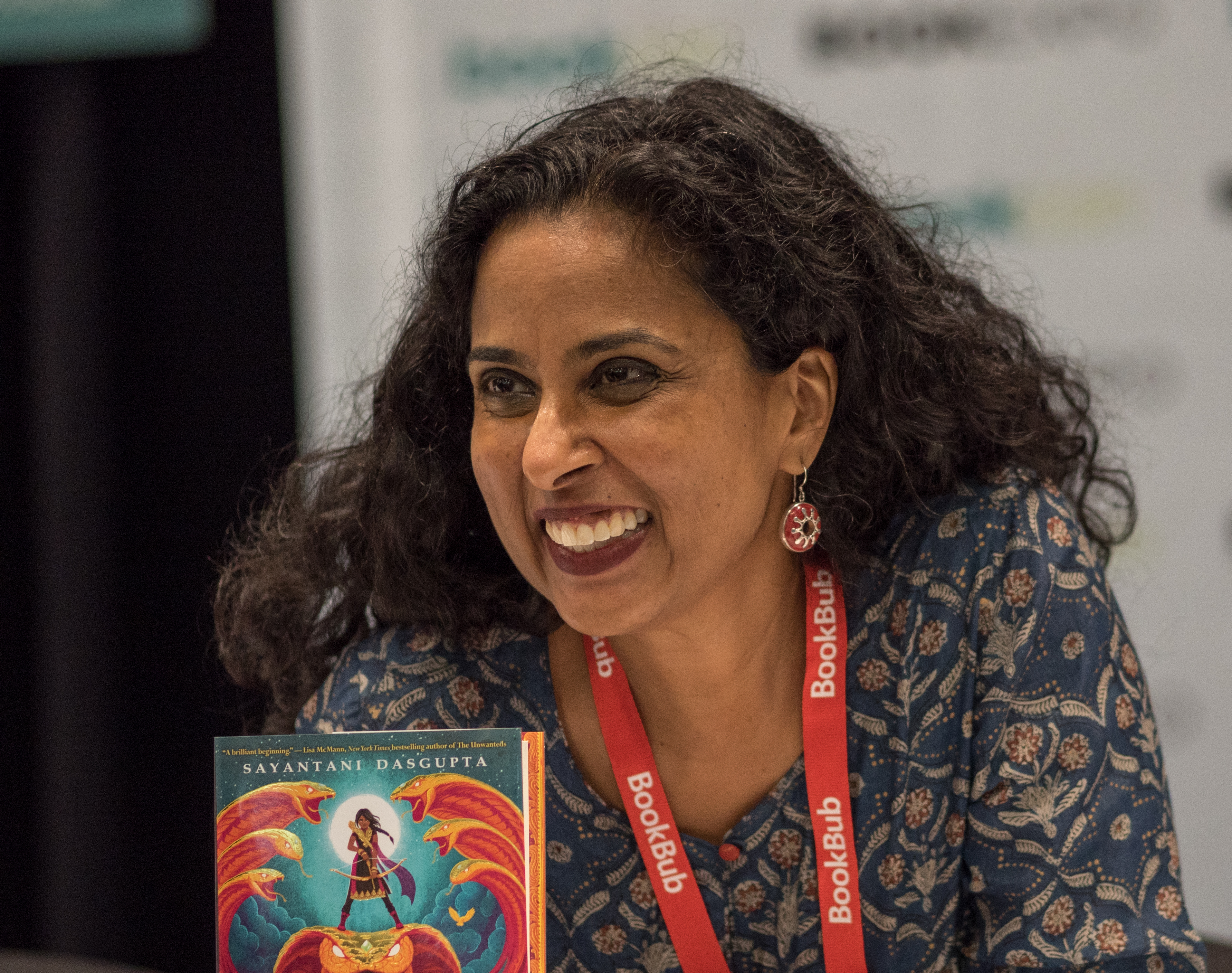 Sayantani DasGupta BookExpo America 2018 at the Javits Convention Center in New York City.